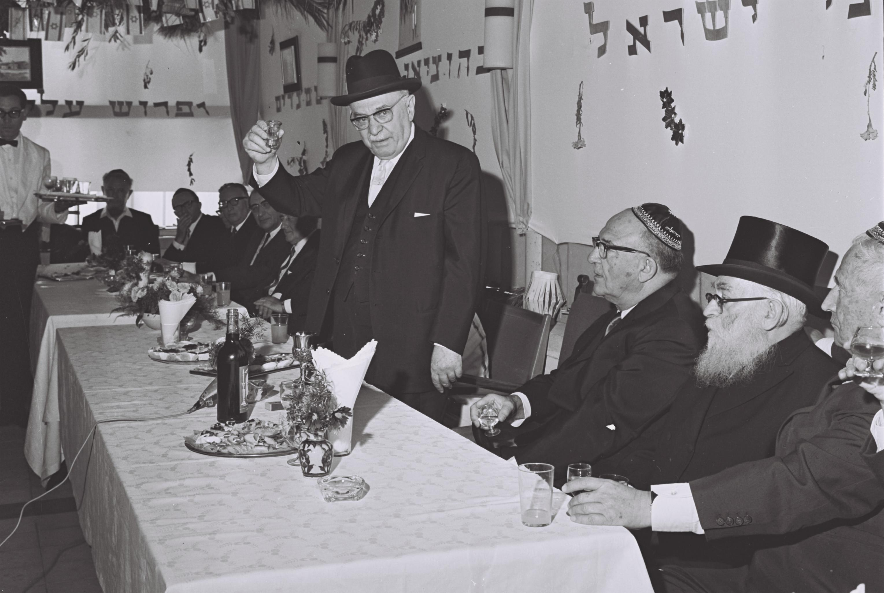 President Zalman Shazar makes “Kiddush” in the sukkah at Beit Hanassi in Jerusalem. Seated to his right are Prime Minister Levi Eshkol, Chief Rabbi Isser Unterman and Mr. Nahum Goldmann. GPO photo by Cohen Fritz.